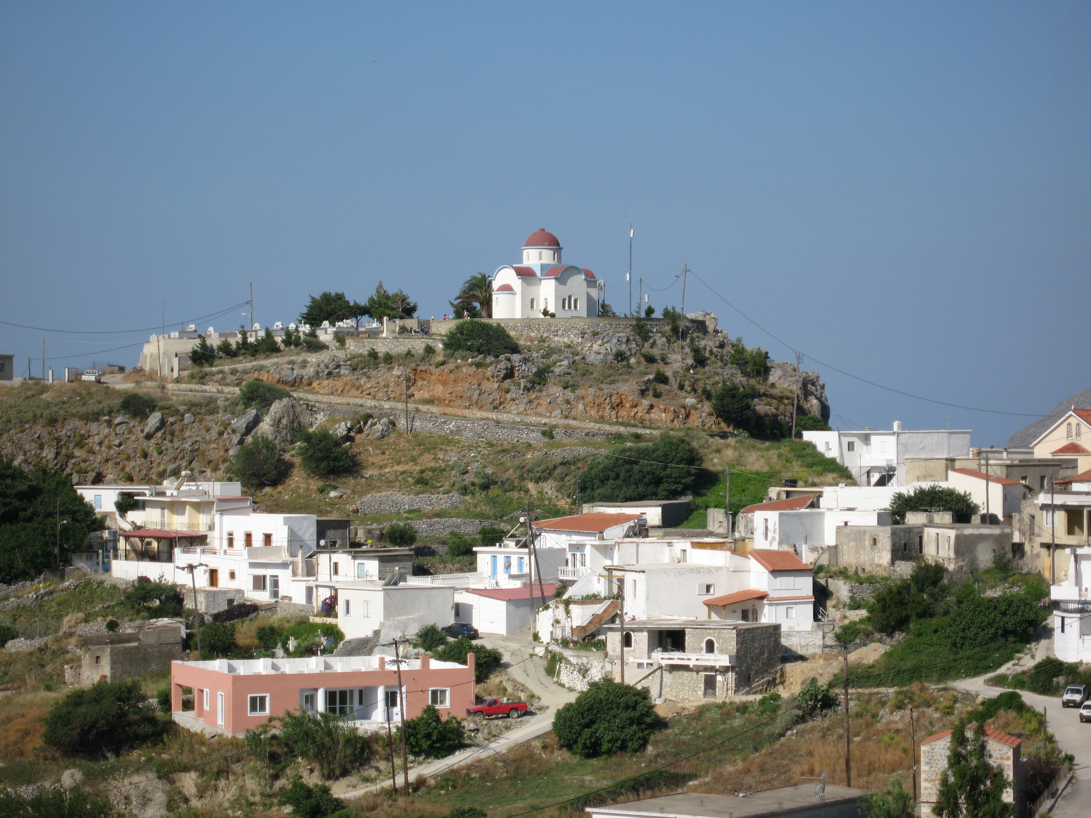 Sellia, Dimos Finikas, Nomos Rethymno, Crete, Greece